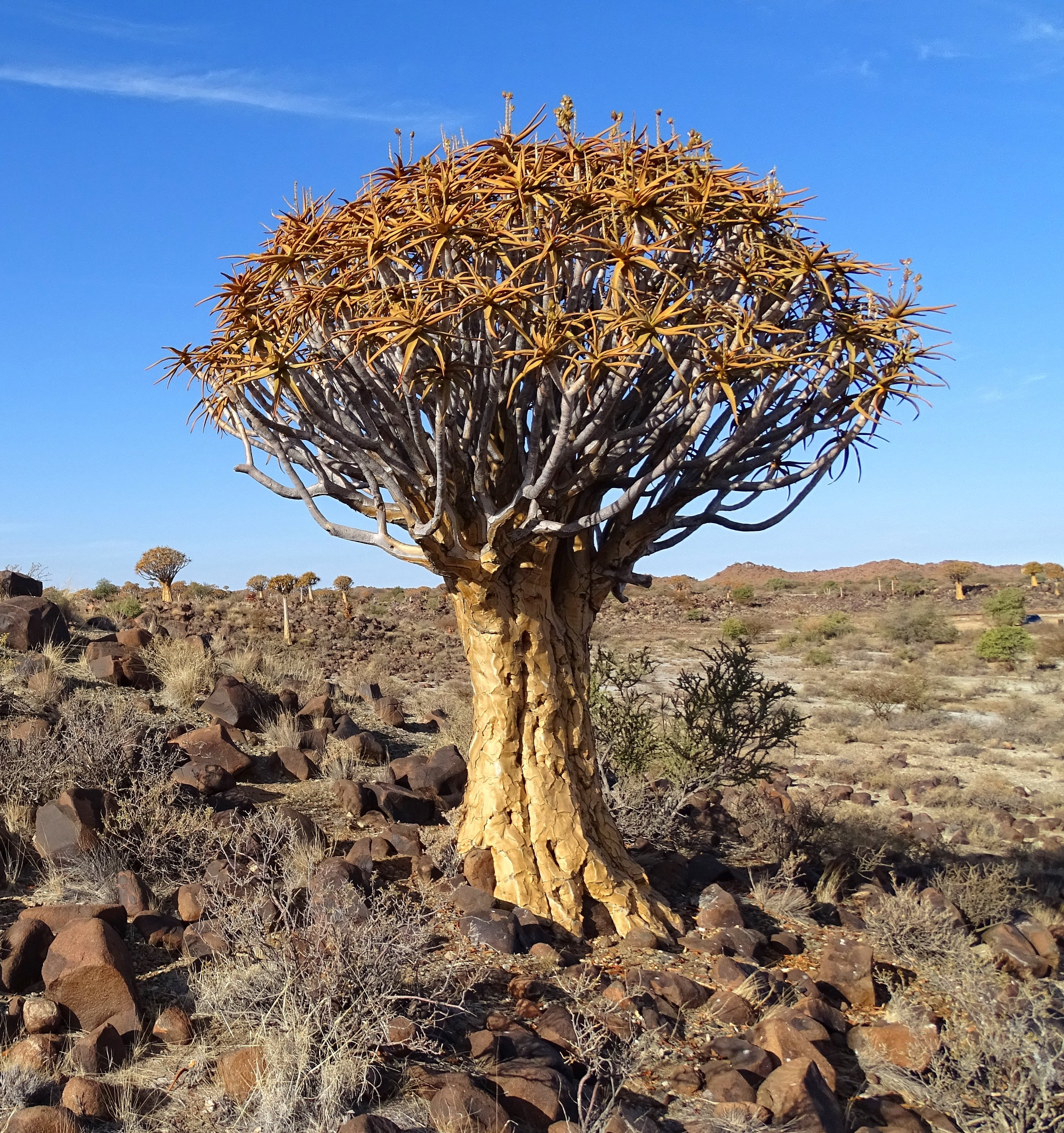 A quiver tree (Aloe dichotoma) in the Quiver Tree Rest Camp on the farm Gariganus north-east of the town Keetmanshoop in southern Namibia.